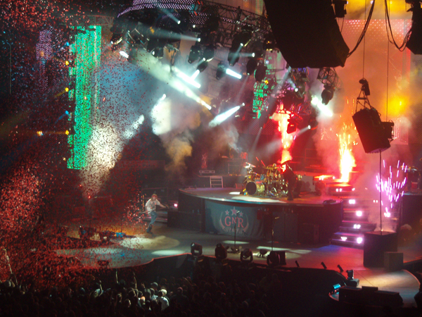 Guns N' Roses performing 'Paradise City' live at the Copps Coliseum, Hamilton, ON during their canadian leg of the Chinese Democracy World Tour.